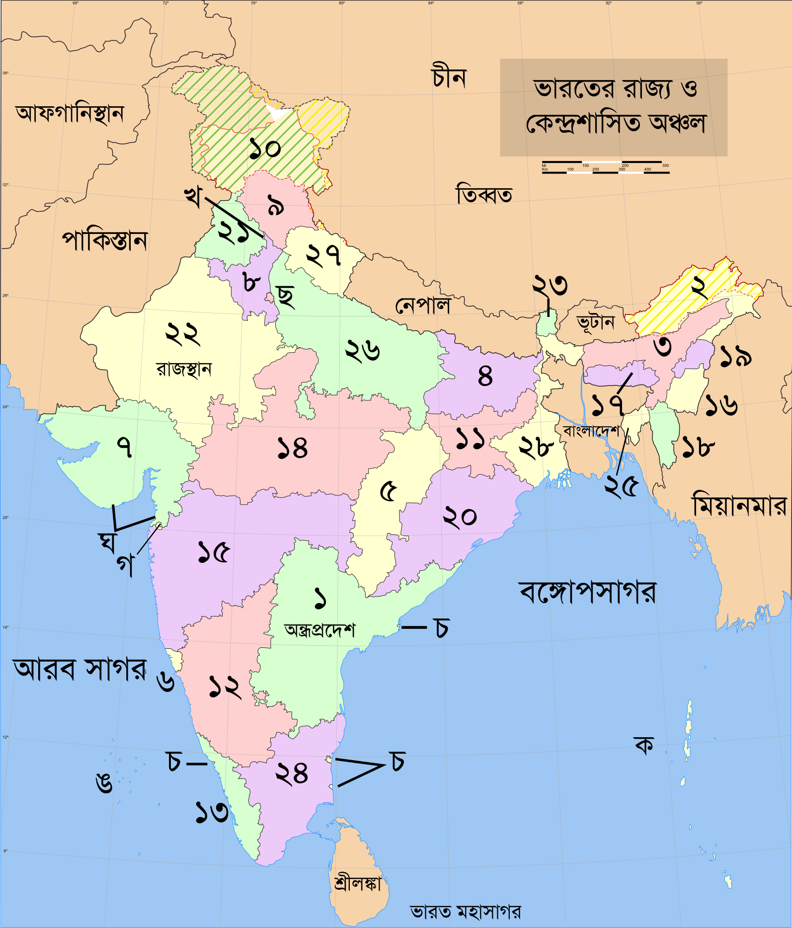 Indian State Number in Bengali Language